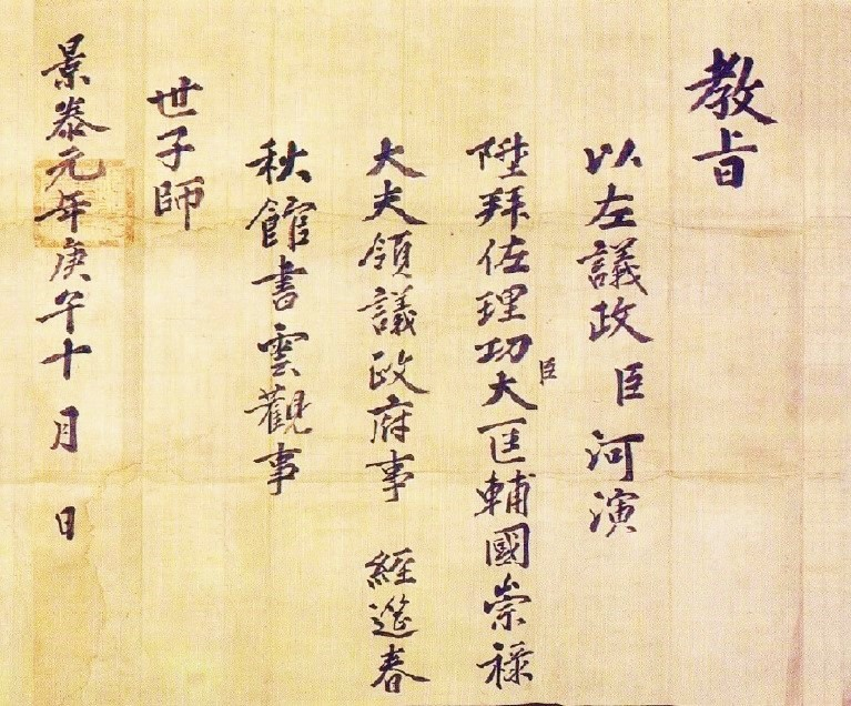 Ha Yeon's Prime Minister((Appointment of Sejong the Great, Joseon Dynasty 1449)